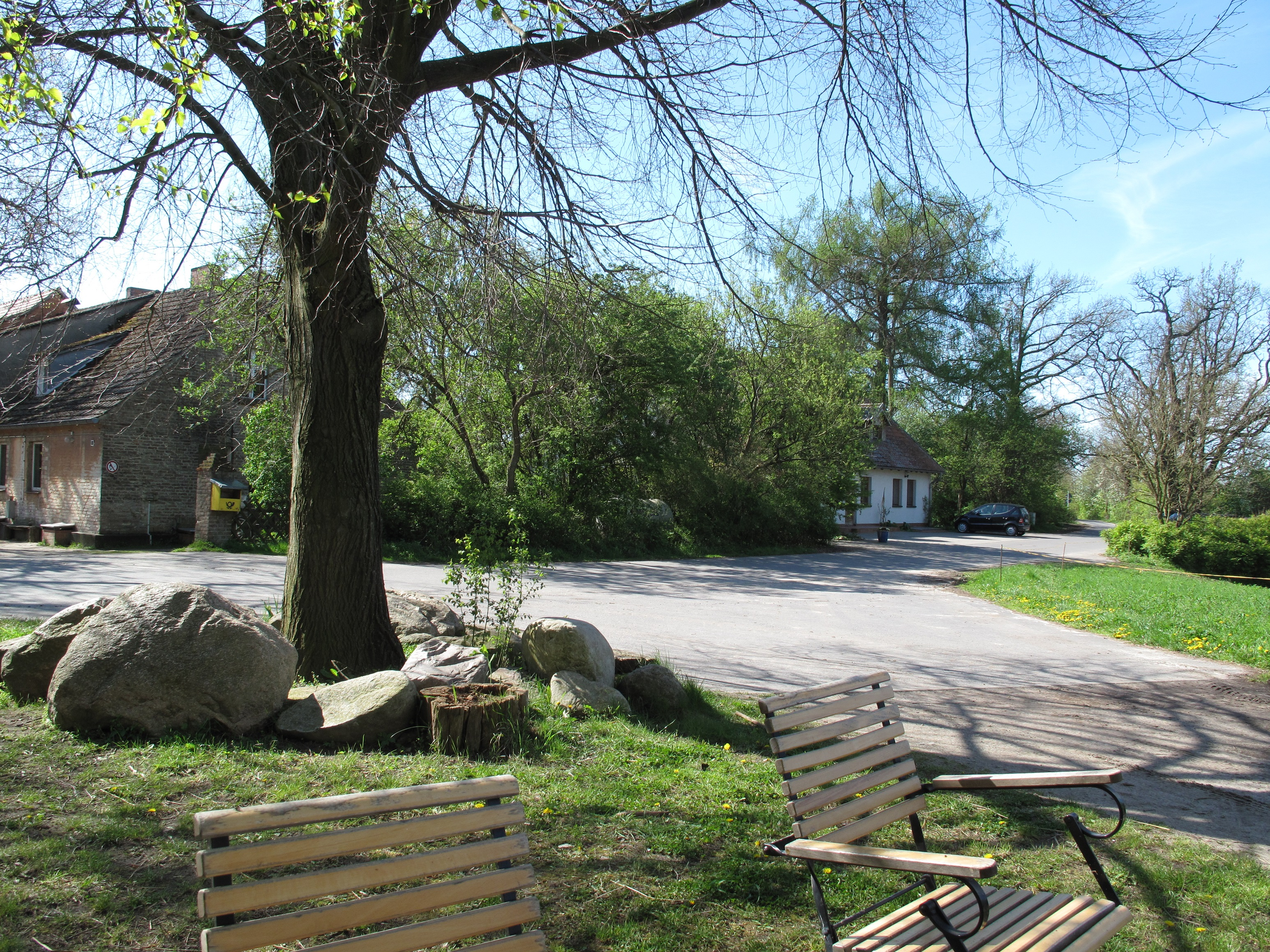 „Hof Marienhöhe“ in April 2014. Marienhöhe is a part (settlement, estate; german: Wohnplatz) and organic farm of Bad Saarow, District Oder-Spree, Brandenburg, Germany. The place was established in 1880 as folwark of the manor Saarow. Since 1928 the „Hof Marienhöhe“ works on the biodynamic agriculture-method (Demeter international) and is considered to be the oldest farm working with this method in Germany.